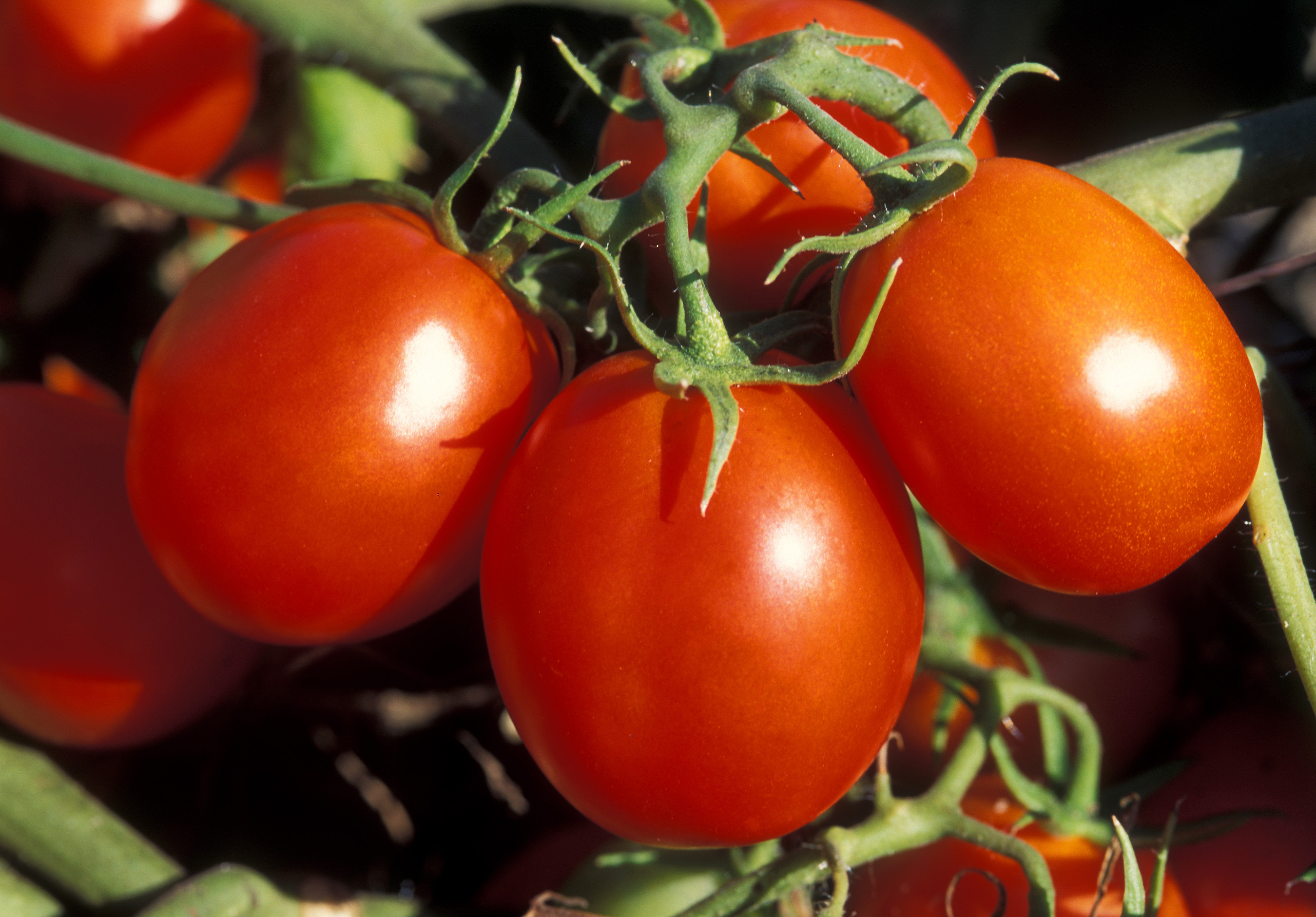 ARS researchers in Geneva have found greater genetic variety in cultivated tomatoes—like the Ohio Processing tomatoes shown here, developed by ARS breeders in Beltsville, Maryland—than was previously thought to exist.